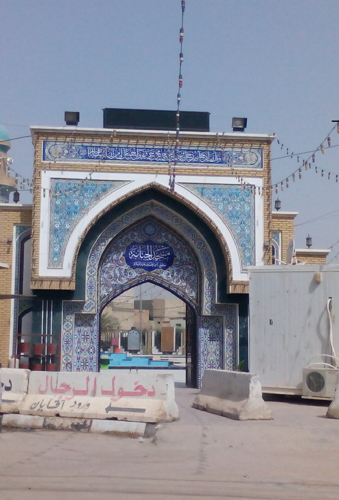 Hananeh Masjid (masque) is situated on the route of Najaf to Karbala